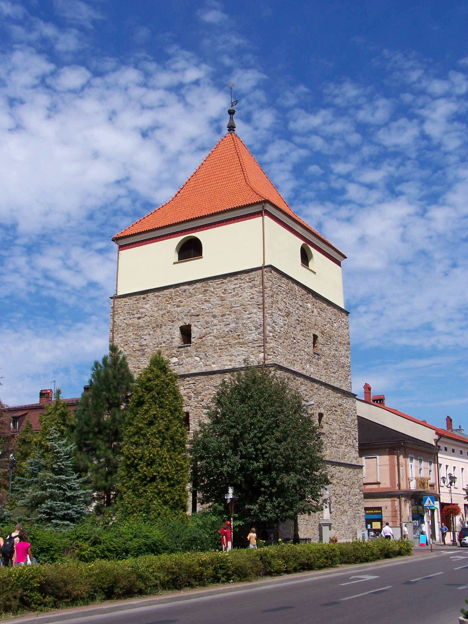 Belfry tower of the cathedral in Żywiec (Poland).